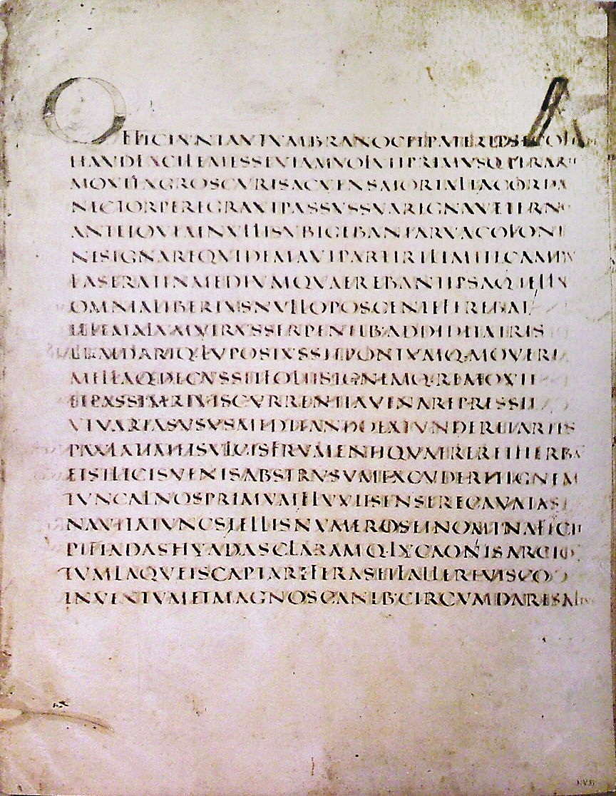 Vergilius Augusteus, Georgica 121ff.